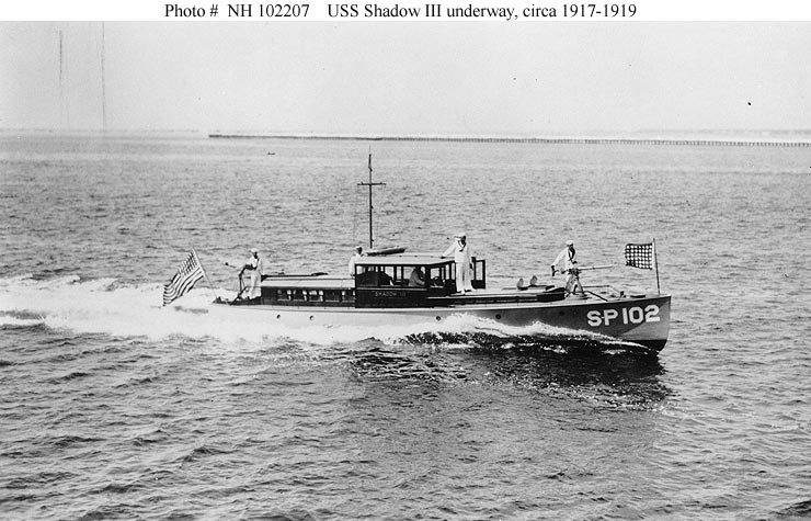 United States Navy patrol boat USS Shadow III (SP-102) underway, probably off :en:Miami, Florida}Miami| , Florida